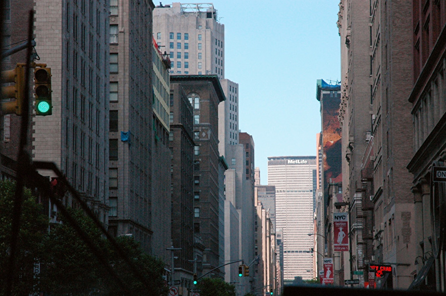 Park Avenue, looking north toward the Metlife building from the Union Square area.